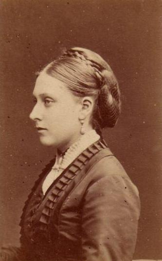 Princess Beatrice of the United Kingdom, photographed in the early 1870s